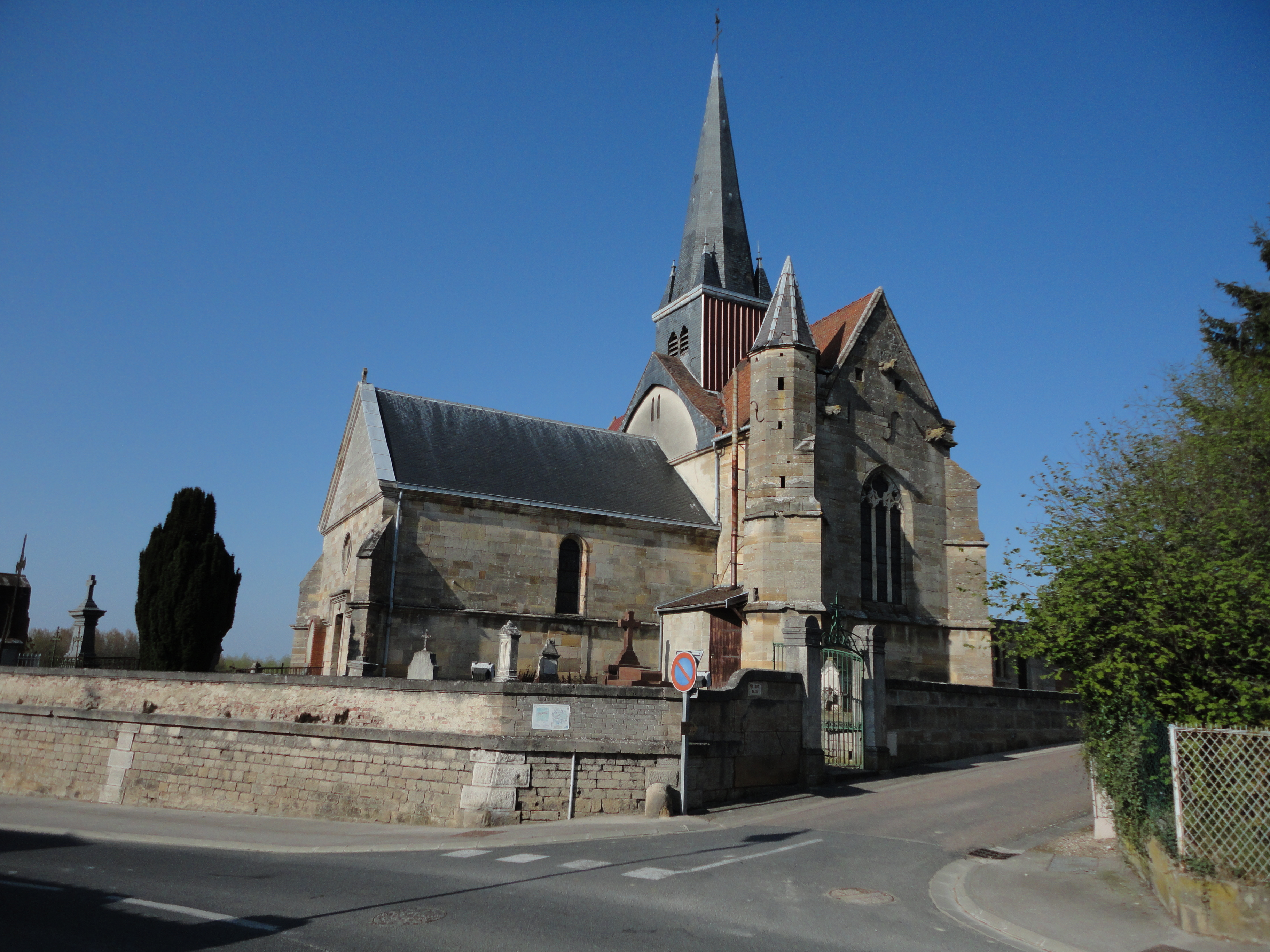 Photography of the church in Pargny-sur-Saulx, France.